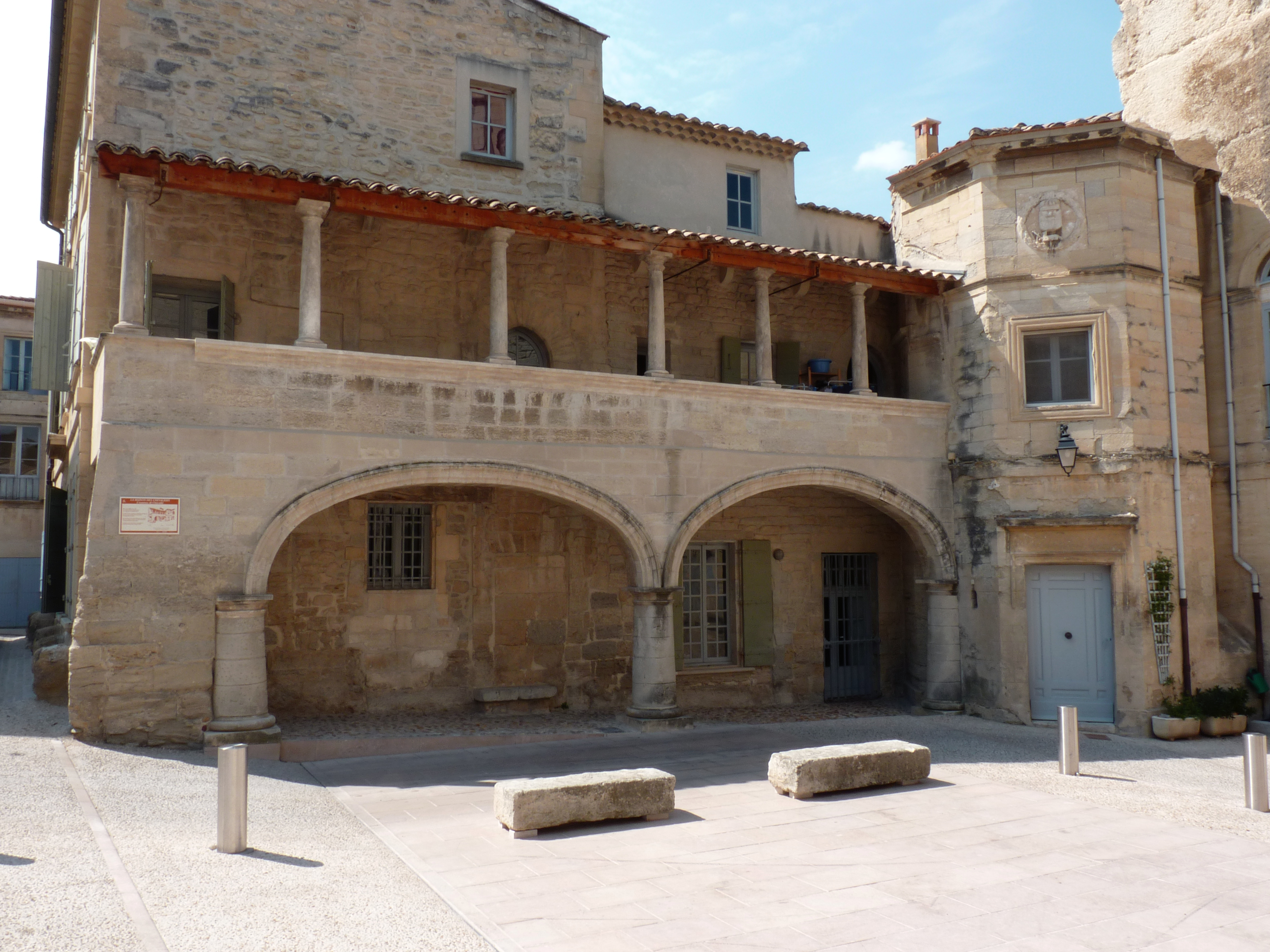 The House of The Knights, built in the 13th century, in Barbentane, France.